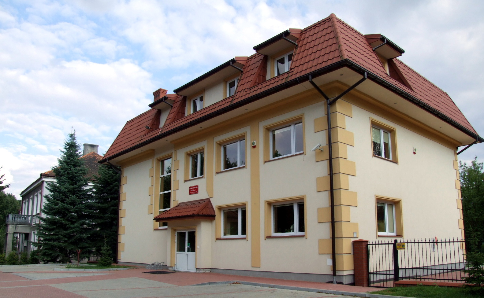 MEC Ostrowiec Świętokrzyski headquarter.